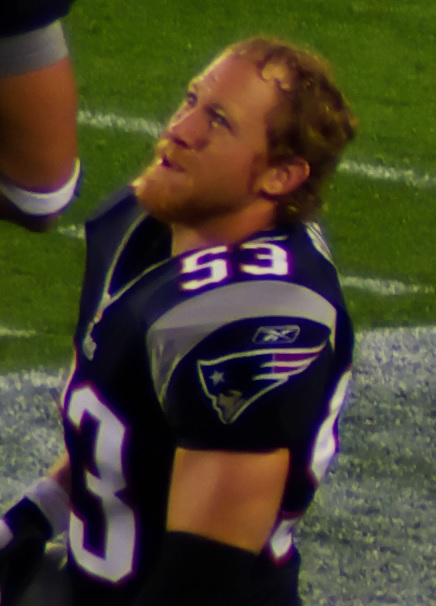 New England Patriots players on sideline during preseason game vs. Tennessee Titans.